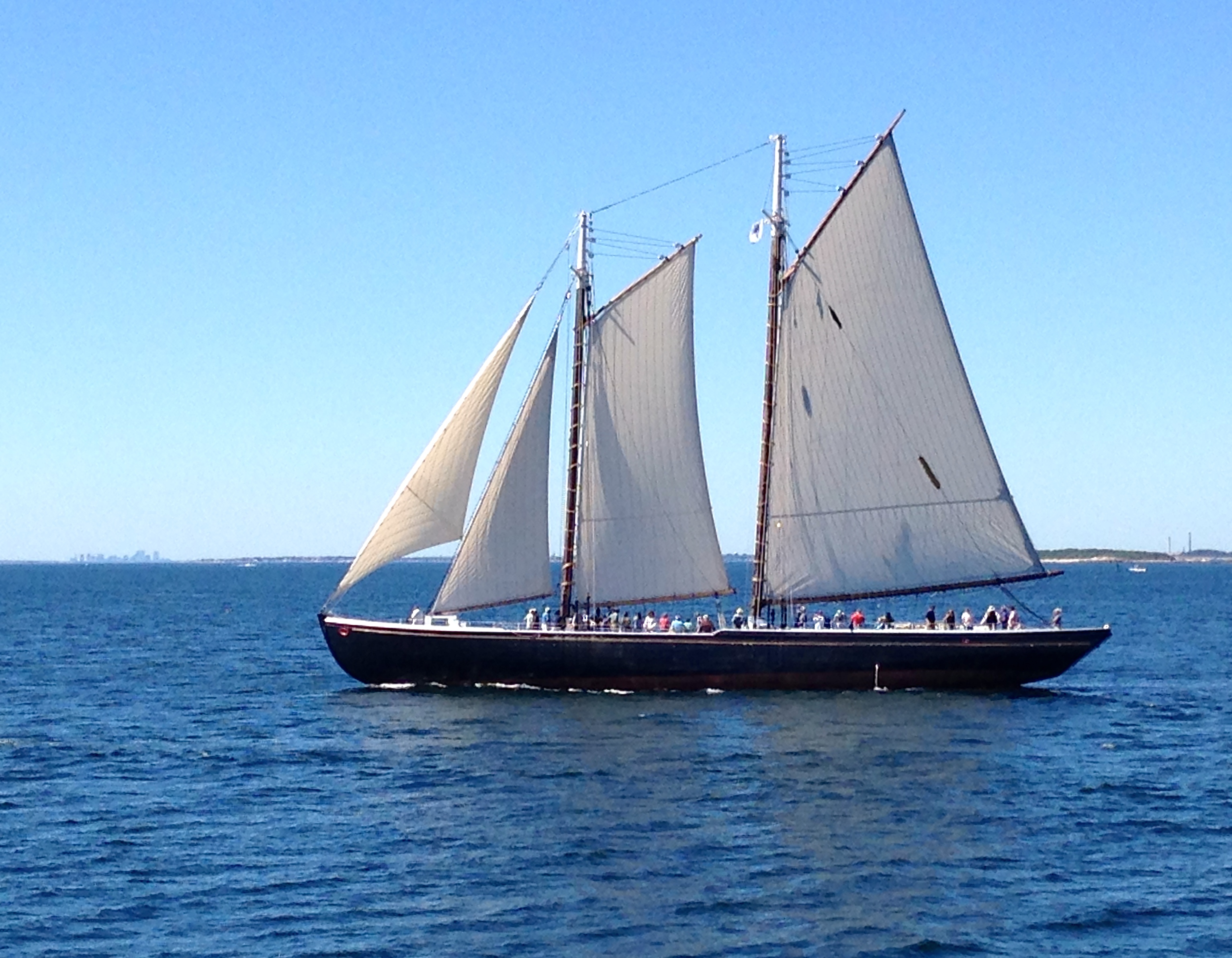 Schooner Adventure sailing from Gloucester Harbor in August, 2013